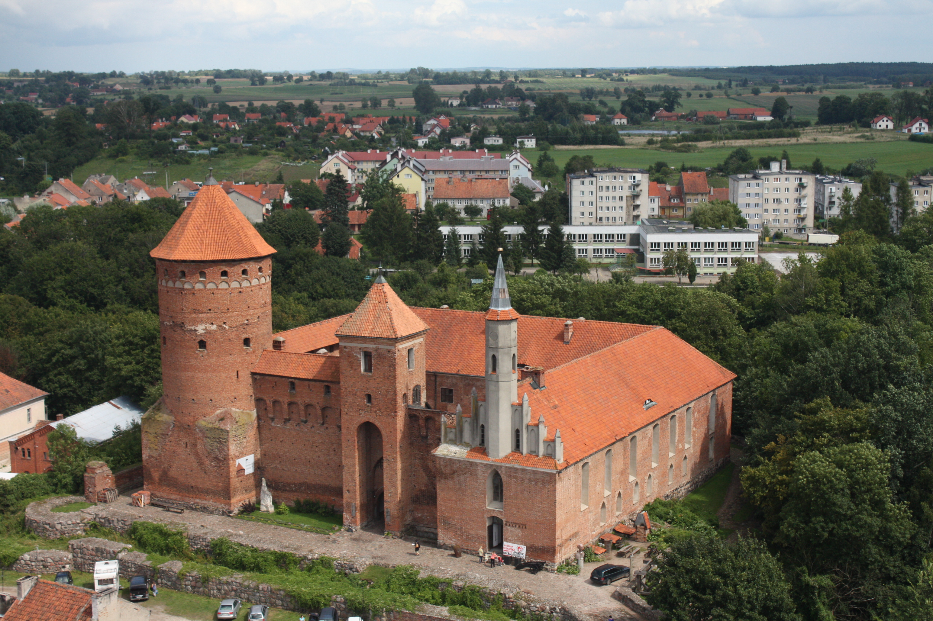 This photo of Warmian-Masurian Voivodeship was taken during Wikiexpedition 2012 set up by Wikimedia Polska Association. You can see all photographs in category Wikiekspedycja 2012. The making of this document was supported by Wikimedia Polska.